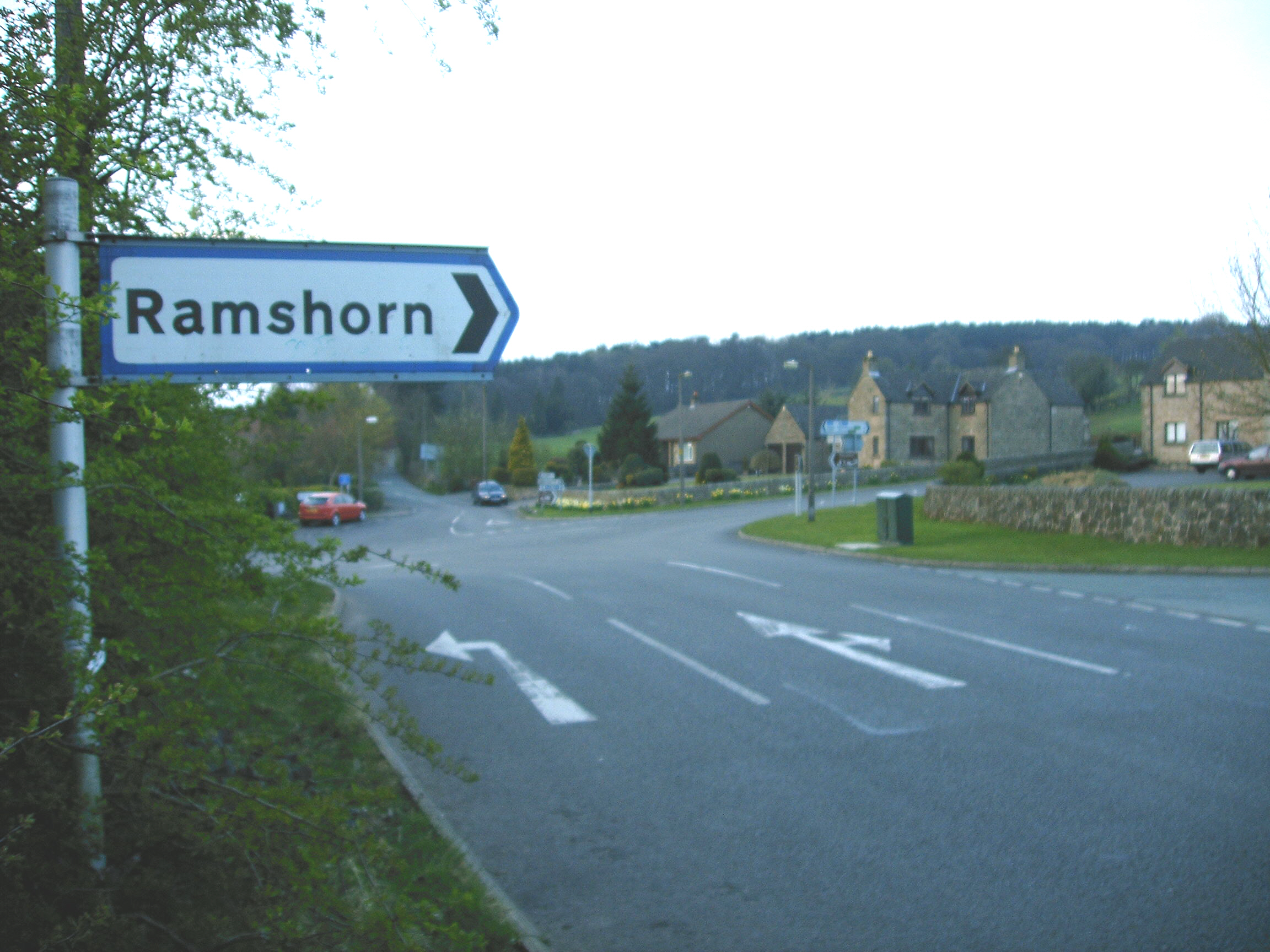 Sign to Ramshorn from the road to Alton Towers at a junction near Cotton